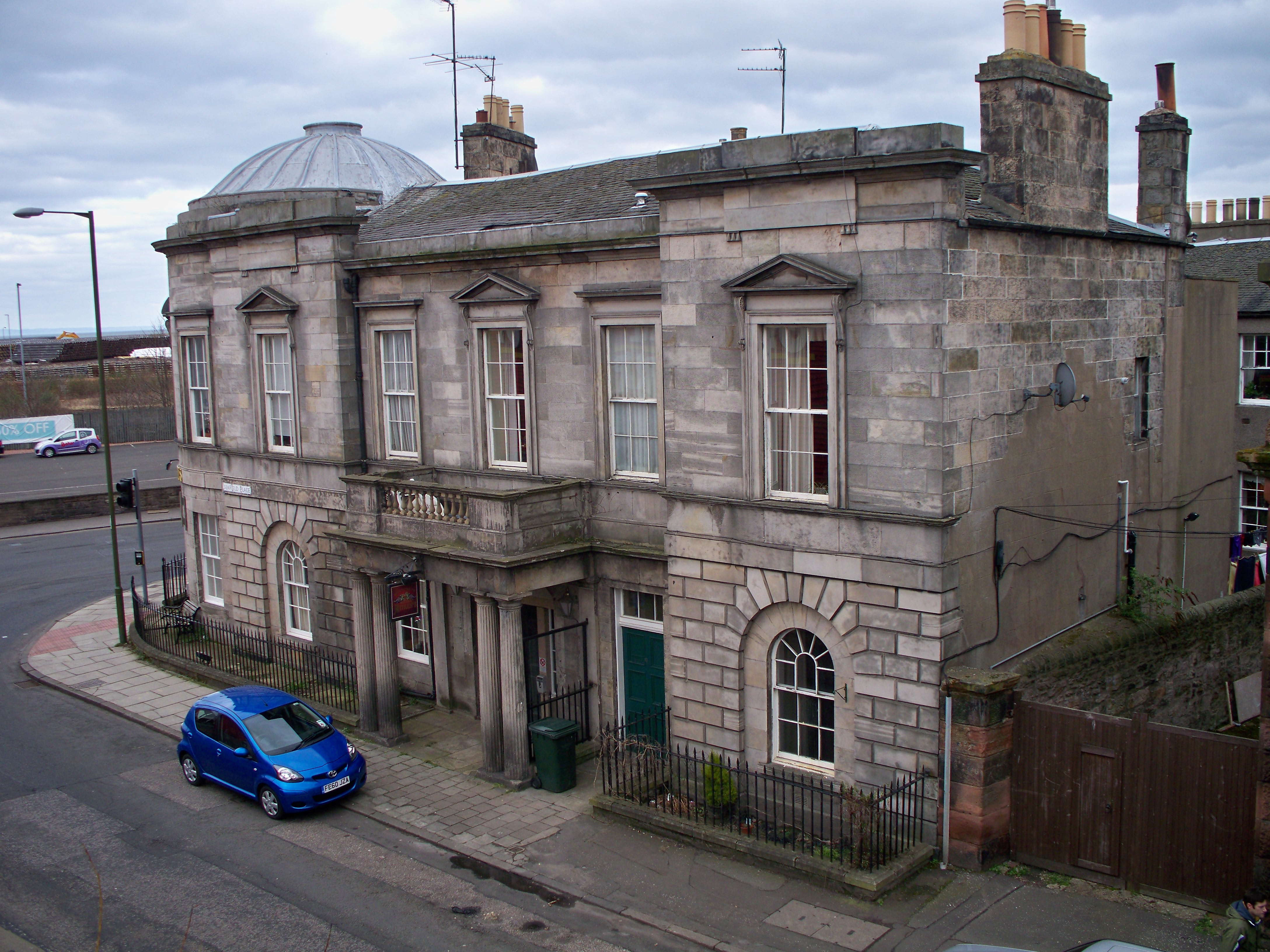 John Paterson (Architect) built 1810. Photograph was taken 2011